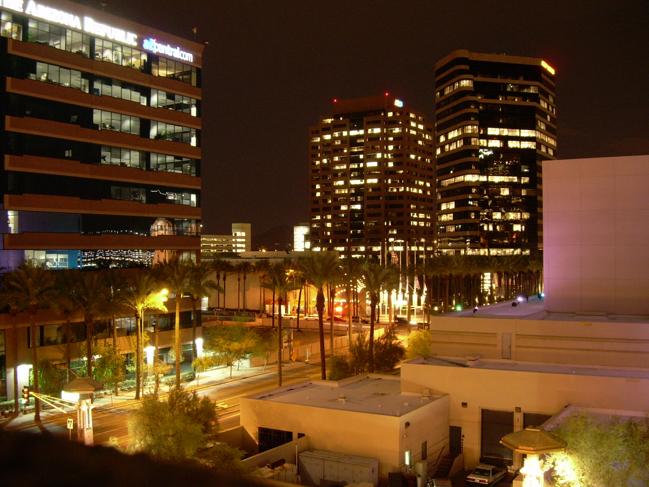 JCordova, self